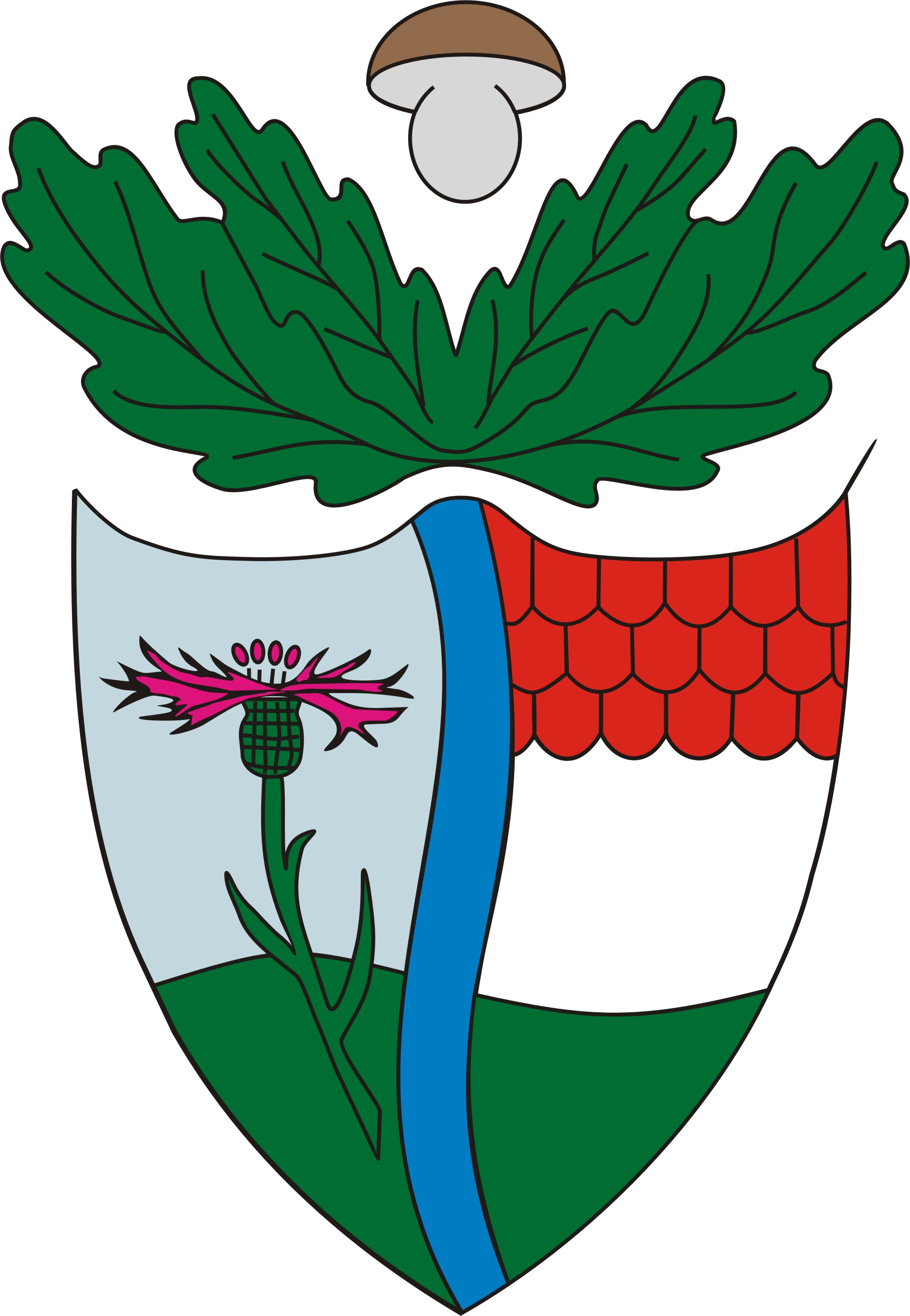 Coat of arms of Imola, Hungary